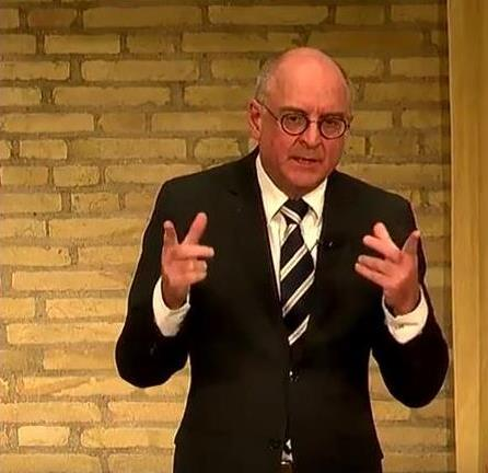 Tilburg professor Emile Aarts, 30 March 2017